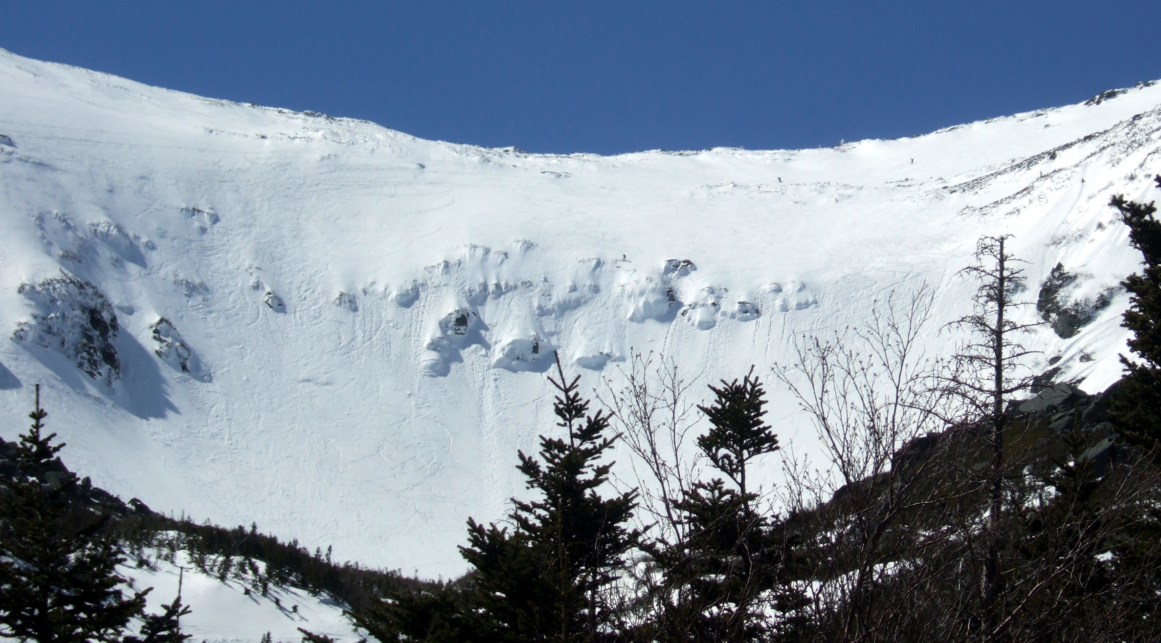 Skiers in Tuckerman Ravine bowl, Mt Washington, New Hampshire, USA.